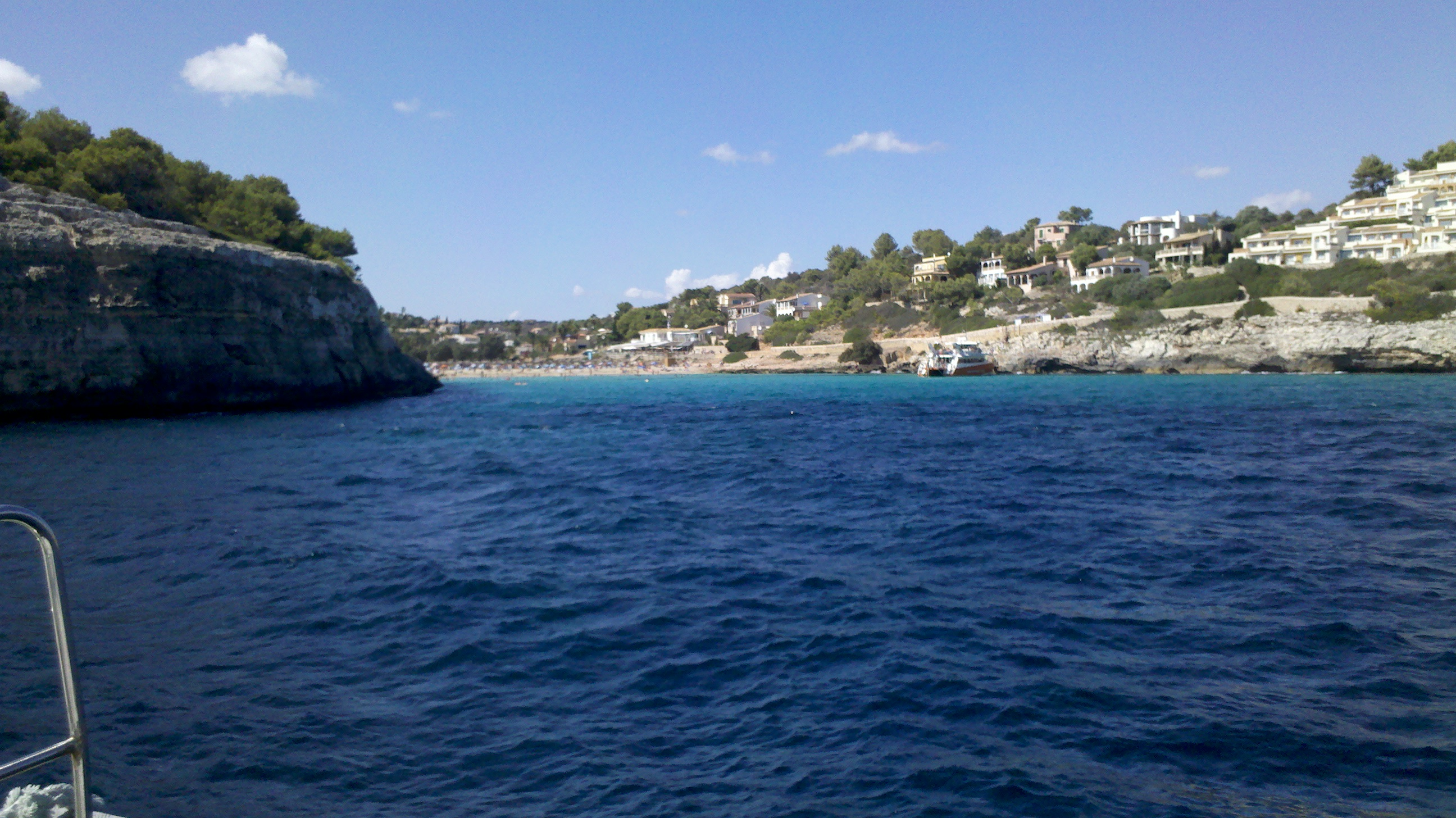 Cala Romantica (Estany d'en Mas) from the seaside